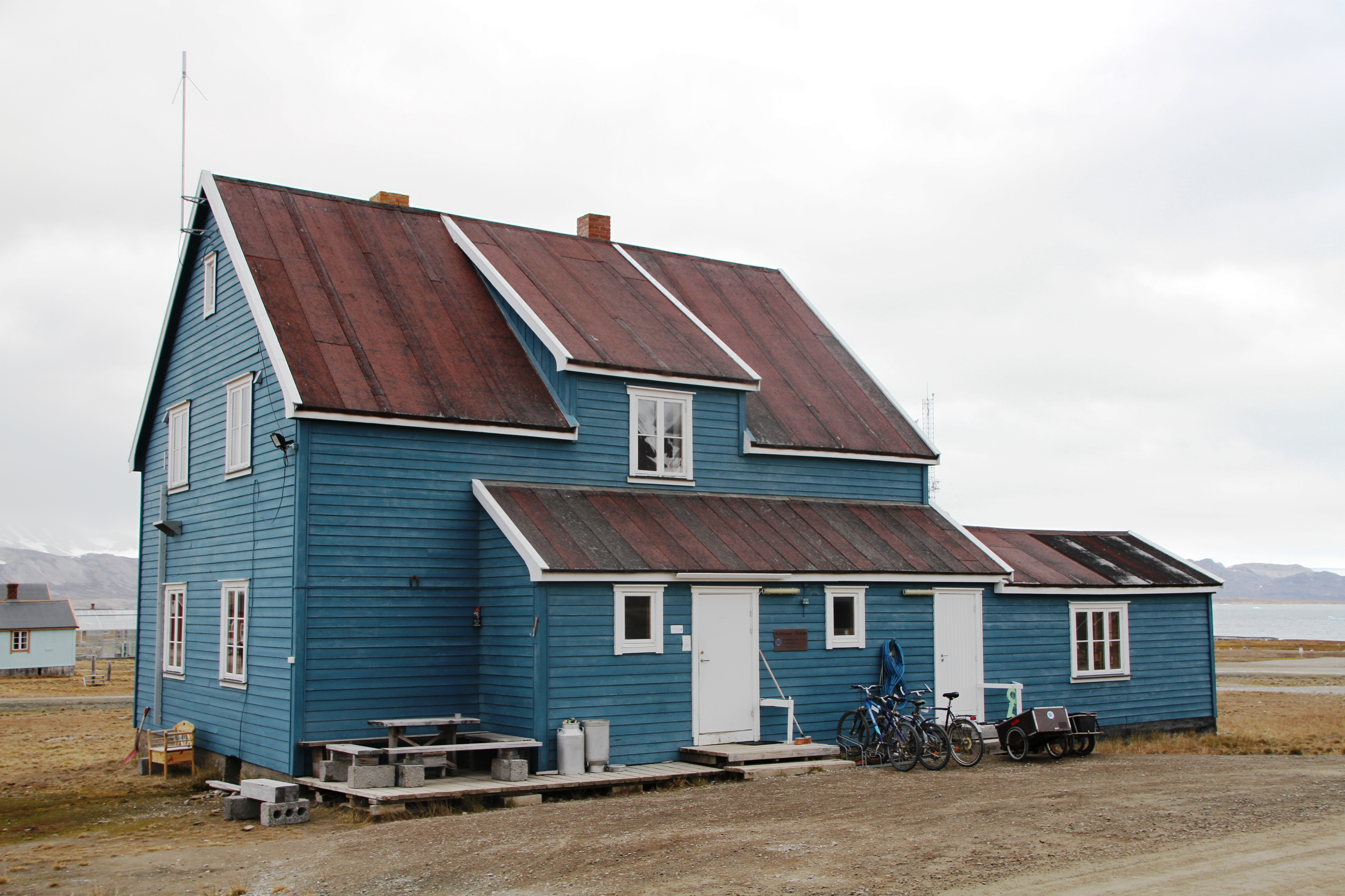 Scene from Ny-Ålesund, the 79° north mining and science community at northwestern Spitsbergen, Svalbard (Norway). Coal mines were abandoned in 1963. Image shows the German research station Koldewey